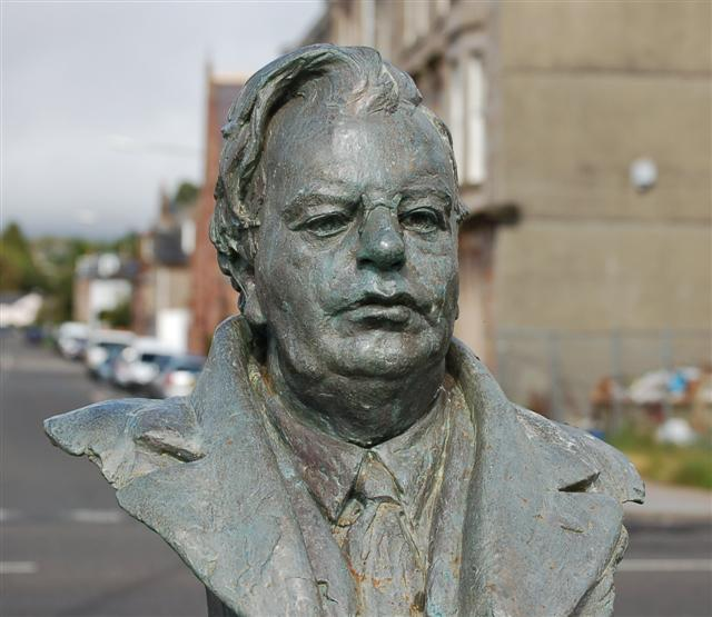 John Logie Baird John Logie Baird was an engineer and inventor who was a native of Helensburgh. His most notable achievement was to be the first person to demonstrate a working television system. This bust of Baird, by Donald Gilbert in 1943, stands on The Promenade at Helensburgh.